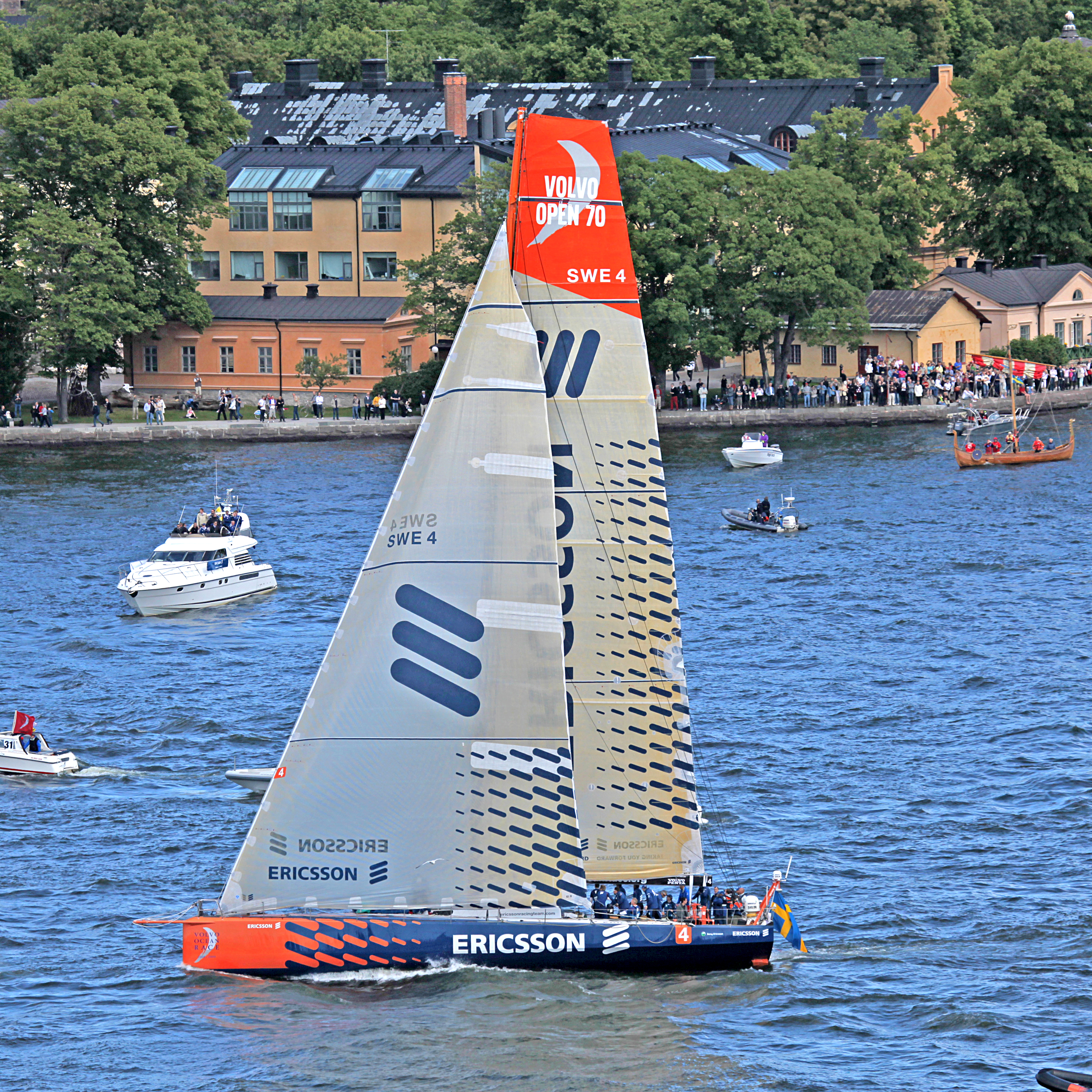 Ericsson 4 wins the Volvo Ocean Race 2009